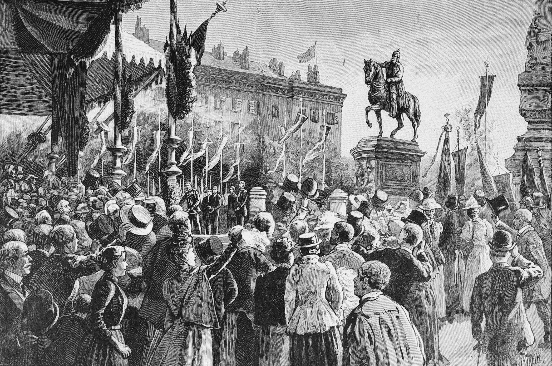 no caption